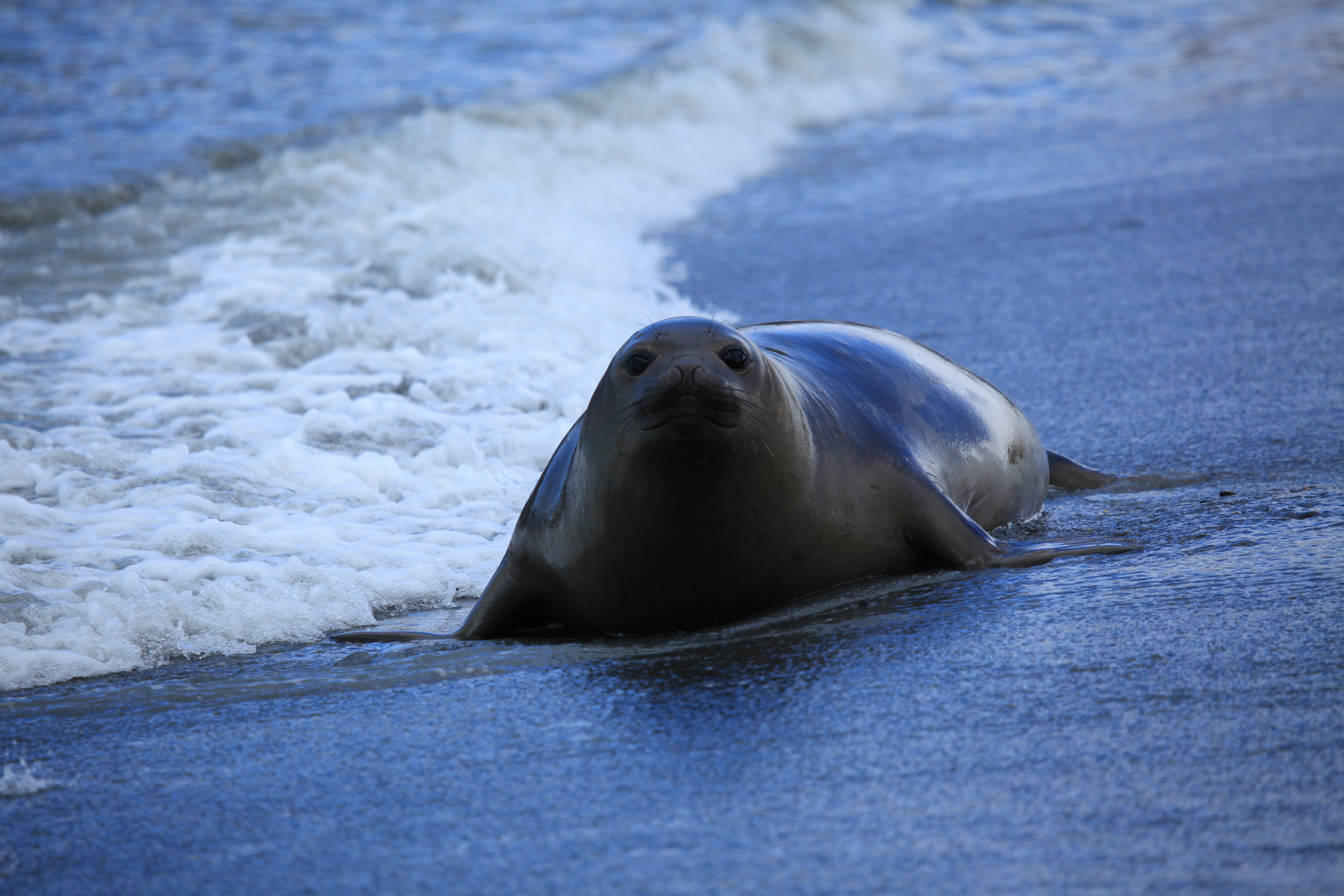 At St. Andrews Bay, South Georgia.